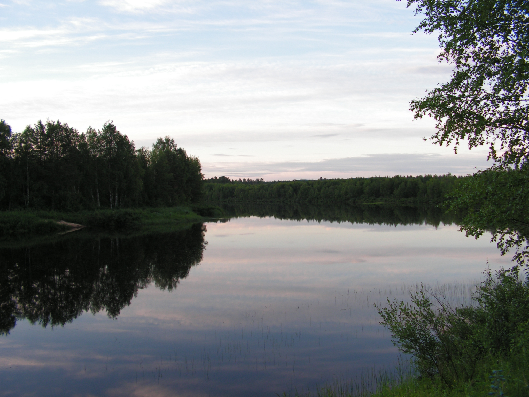 This is were the sun never goes down. The only living thing awake is moskitos and tourists. Here you can get big fishes, and a lot of fresh air. The silence and the experience are free.